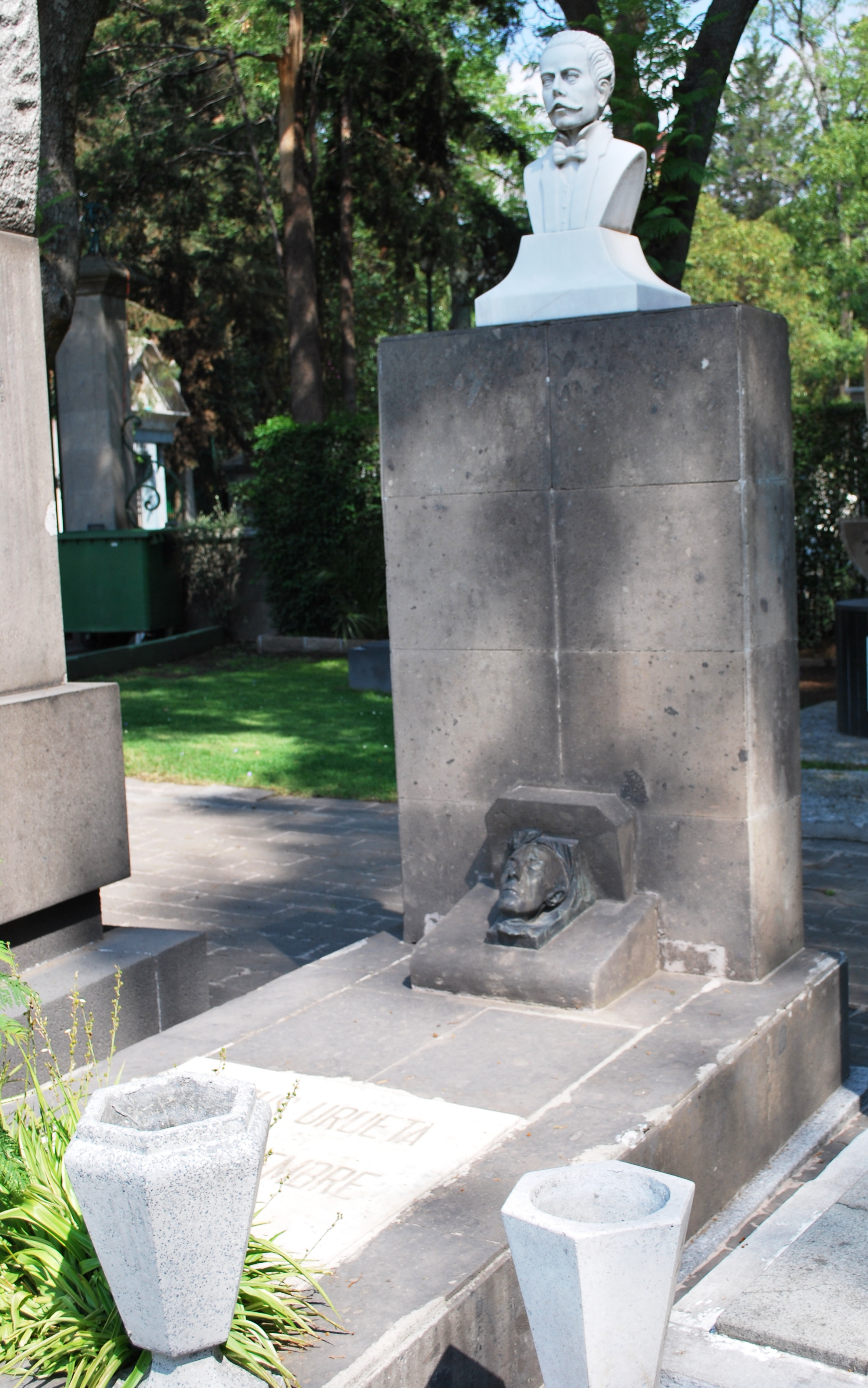 Tomb of Jesus Urueta in the Panteon Civil de Dolores cemetery in Mexico City